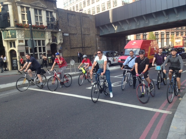 Rush hour utility cyclists in the City of London.